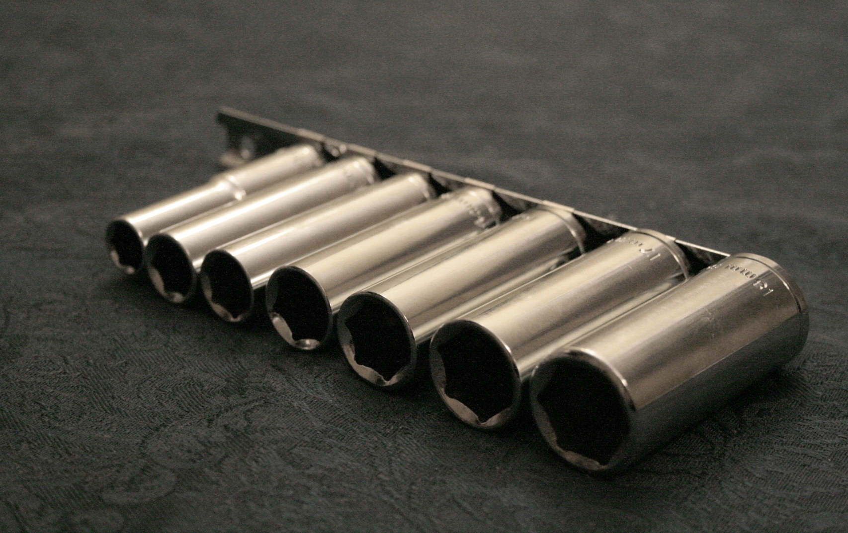 A set of deep metric sockets on a snap-on socket rail. The largest one is 18mm.